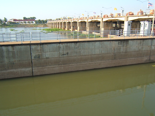 Chaophraya Dam, Chainat Province, Thailand